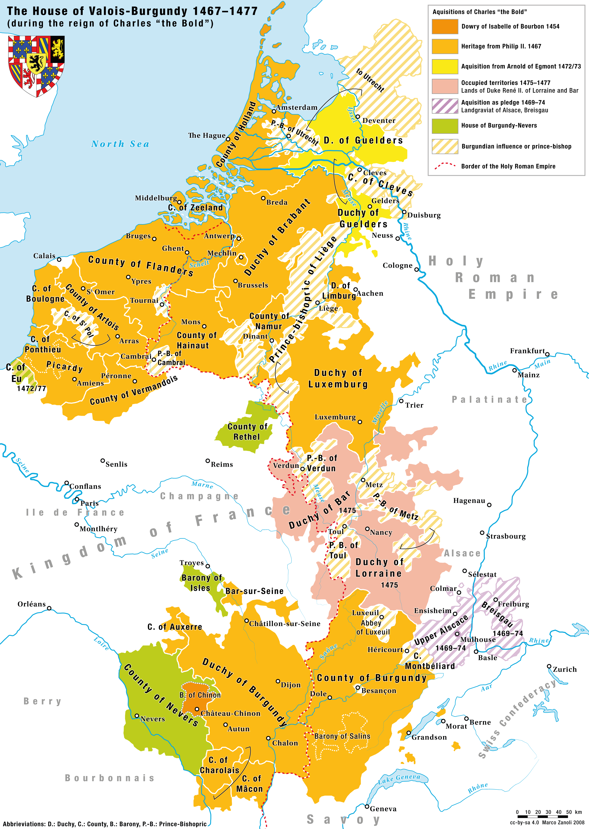 Territories of the House of Valois-Burgundy during the reign of Charles the Bold, 1465/67–1477